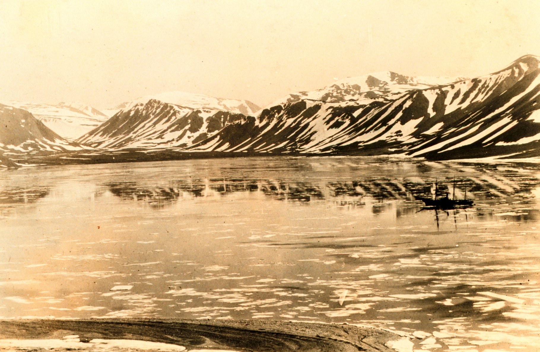 The US Coast Guard cutter Bear at Emma Harbor, Chukota, Siberia, Russia July 1921. The Bear was there in support of geomagnetic observations by USCGS, an expedition from the American Museum of Natural History.